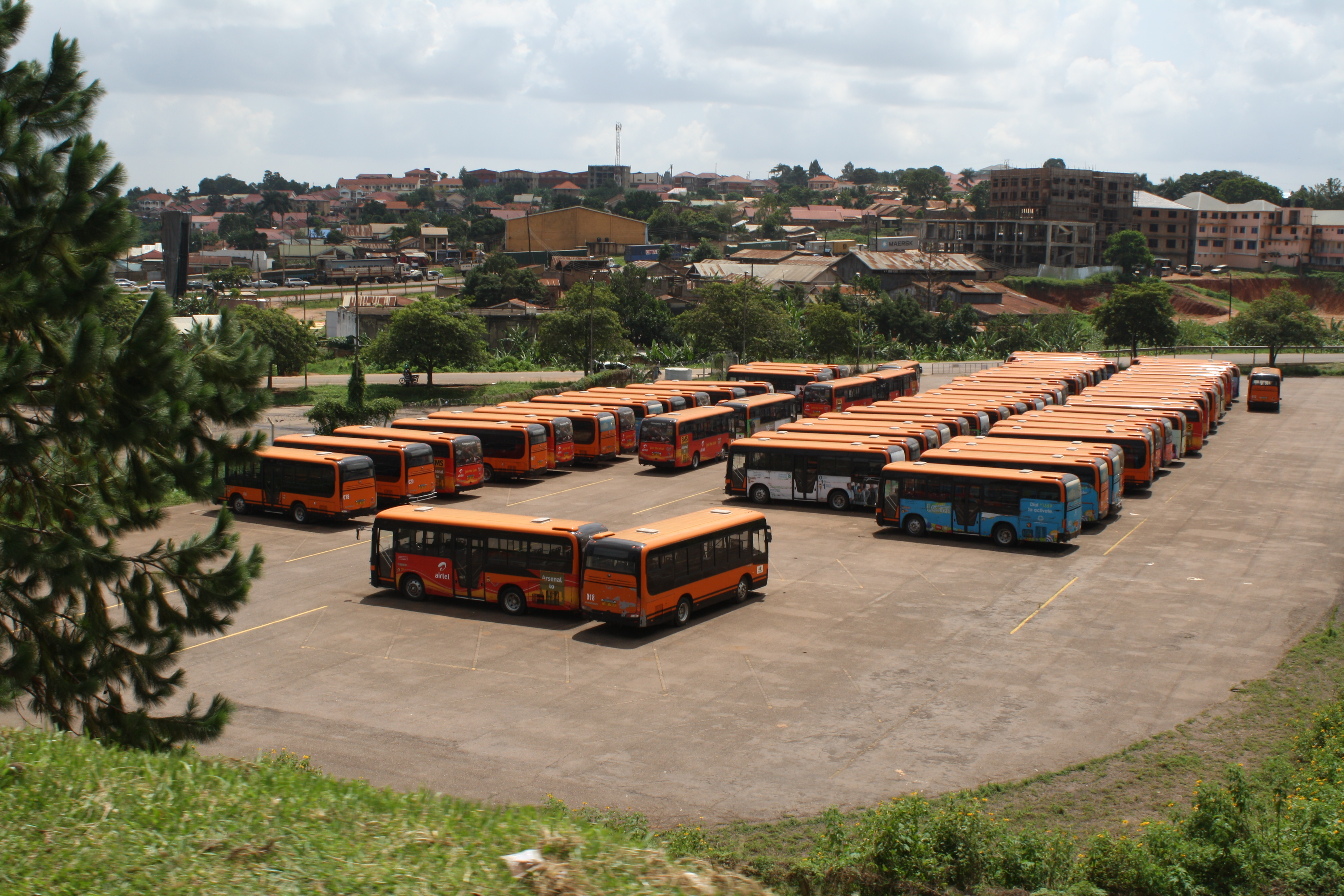 Full of new unused busses